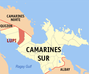 Map of Camarines Sur showing the location of Lupi